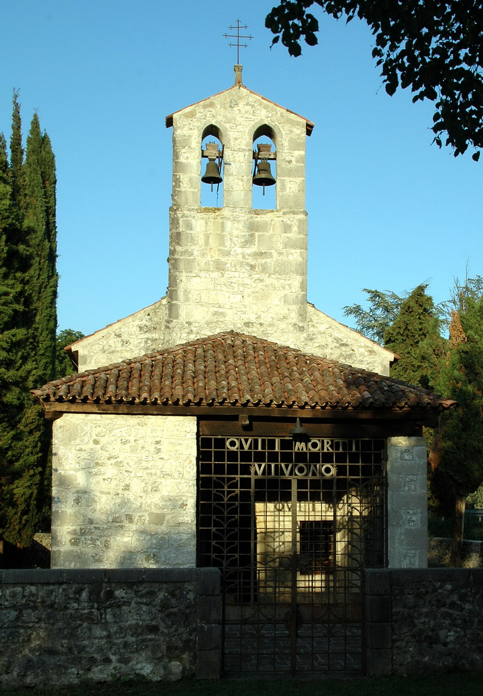 Church of San Quirino, San Pietro al Natisone, Friuli, Italy